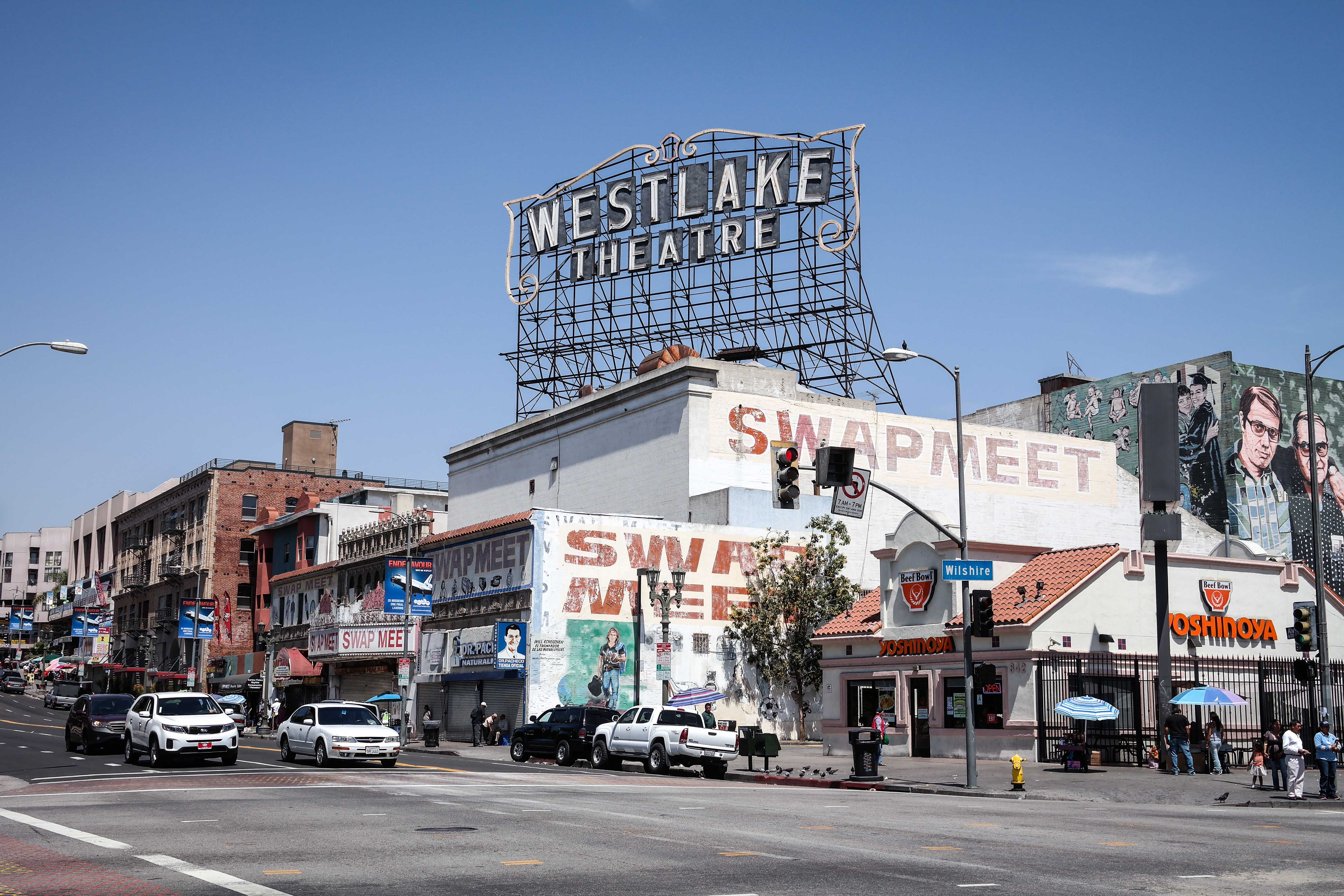 The Westlake Theatre in the western Westlake district, Los Angeles. A National Register of Historic Places site (January 7, 2010) and Los Angeles Historic-Cultural Monument (#546) located at 634-642 South Alvarado Street - Los Angeles. Designed by architect Richard M. Bates in the Spanish Colonial Revival style with Churrigueresque detailing on the exterior, and constructed by the West Coast Langley Theatres. The theater auditorium includes a striking, extant mural by nationally-acclaimed Dutch-born muralist, Anthony Heinsbergen, and another mural in the theater's mezzanine, also likely rendered by Heinsbergen. In 1935, portions of the exterior, the entrance, and interior foyer were updated by architect S. Charles Lee. The theater is also noted for its three-story-high rooftop neon sign that is a neighborhood marker for Westlake/MacArthur Park.